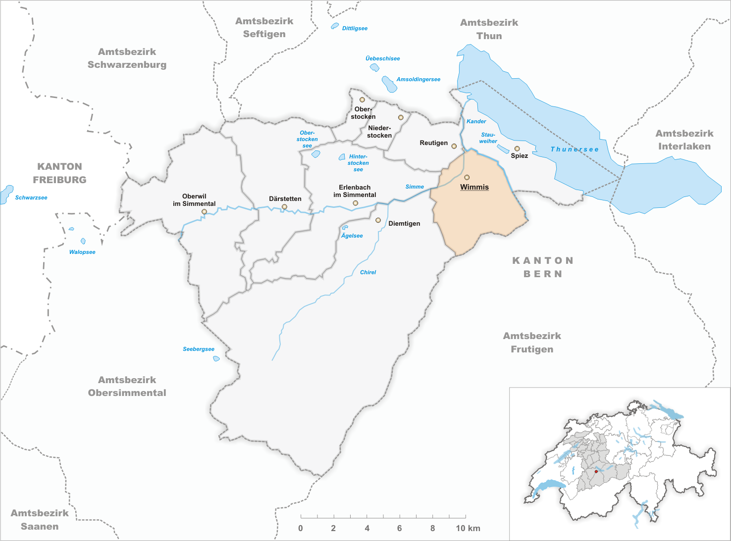 Municipality Wimmis